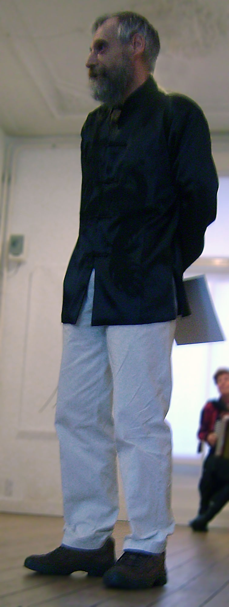 Kassiël Gerrits, Dutch artist